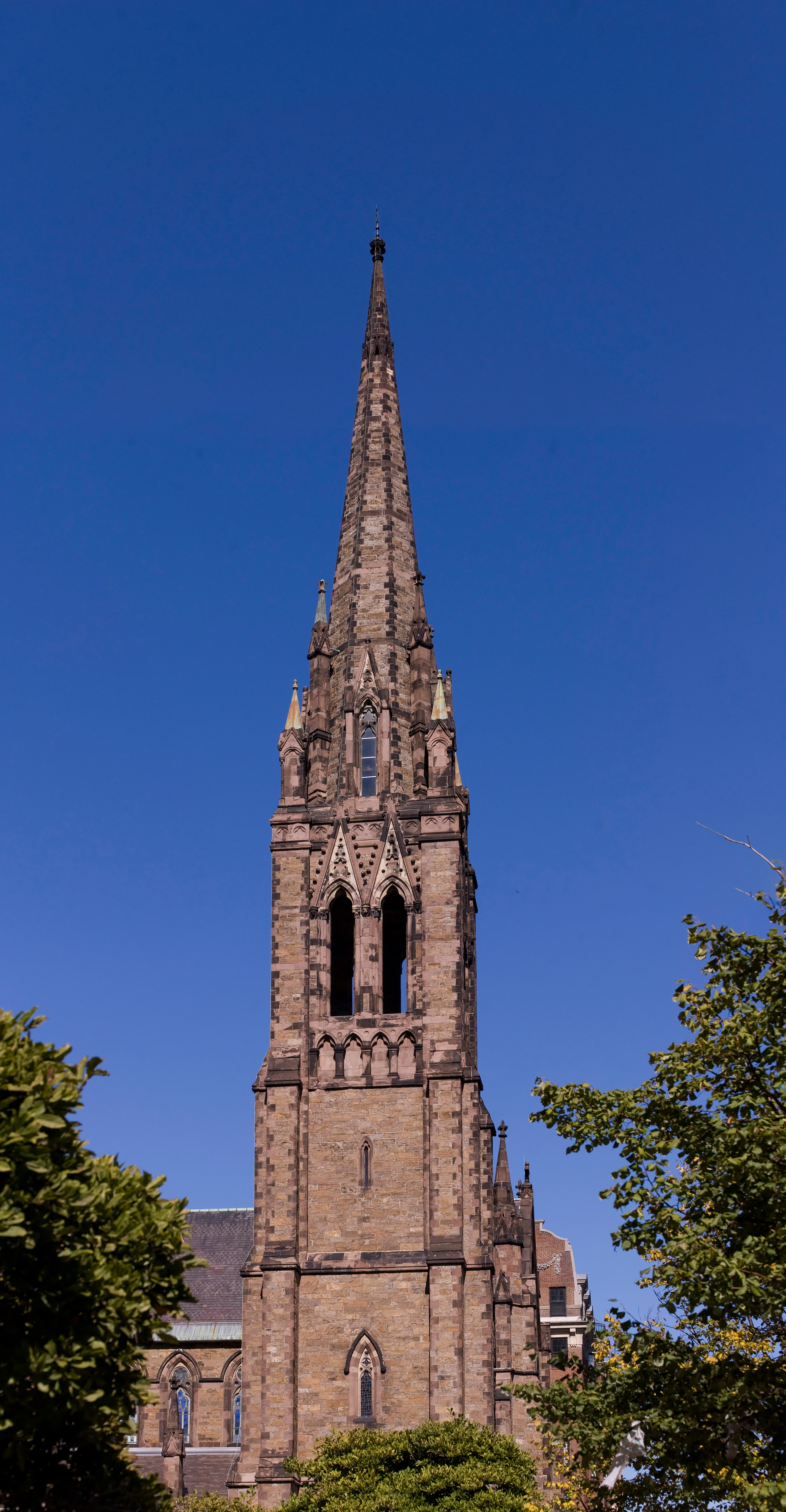 This is the steeple of the CHURCH OF THE COVENANT, which someone keeps incorrectly posting as Emmanuel Church. It isn't.